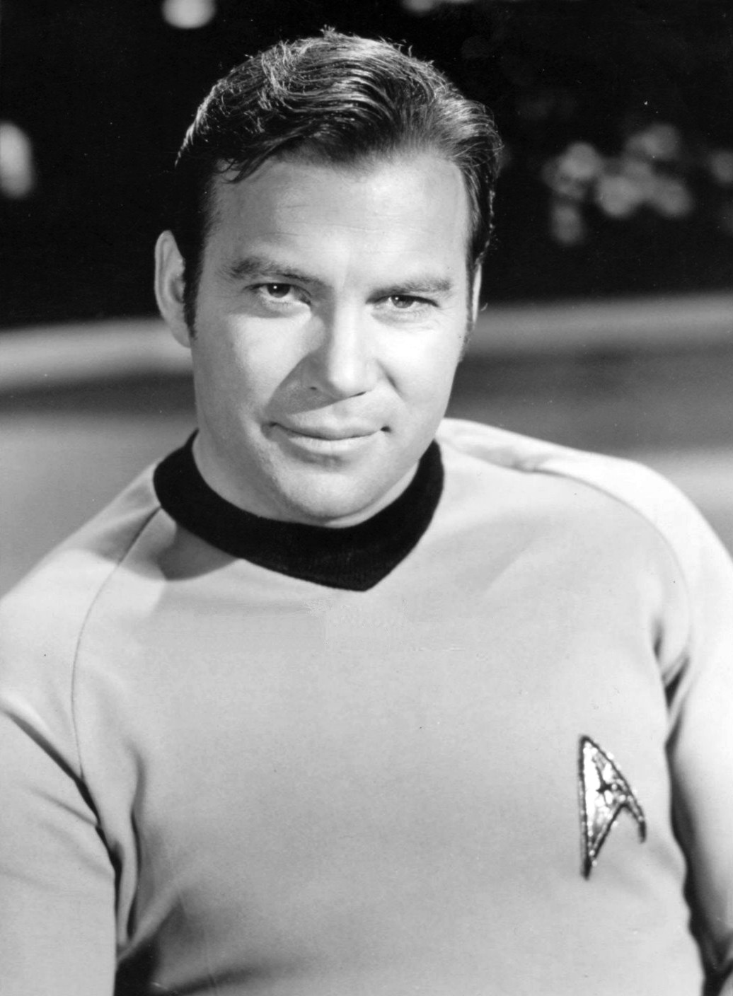 Photo of William Shatner as James Kirk from the television program Star Trek.